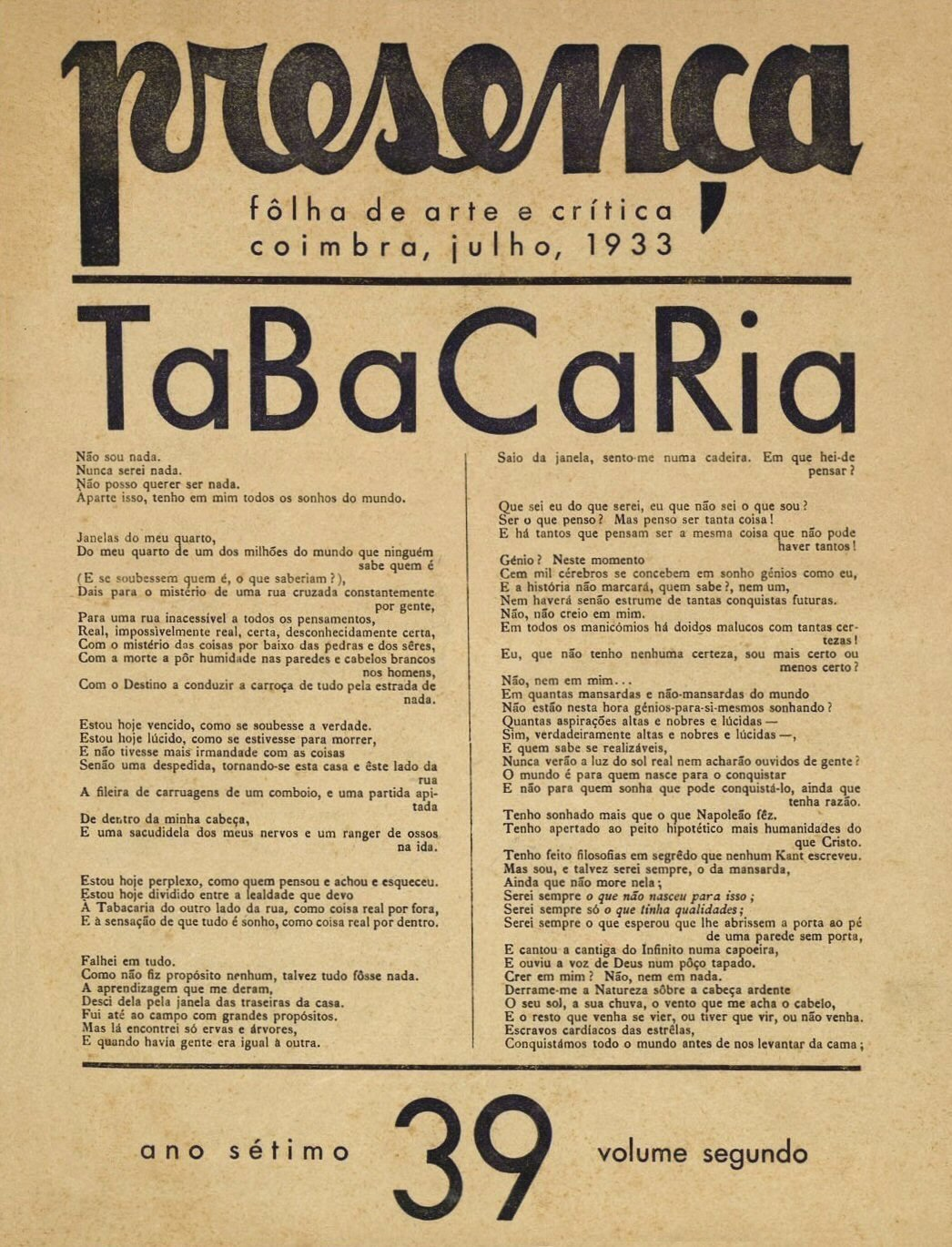 Alvaro de Campos, 'Tabacaria' Presenca N.39 Julho 1933.